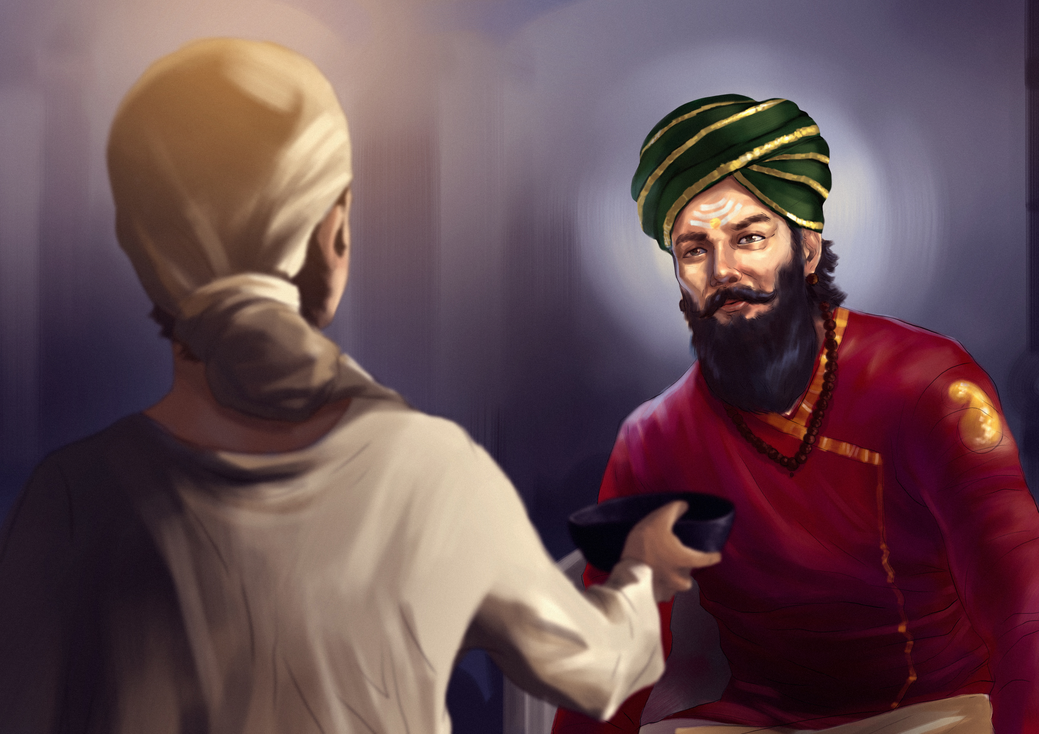 A Painting depicting Shri Sai Baba's visit to Maniknagar.